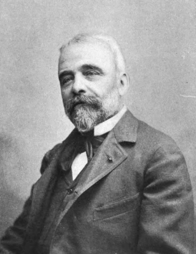 Ernest Lavisse